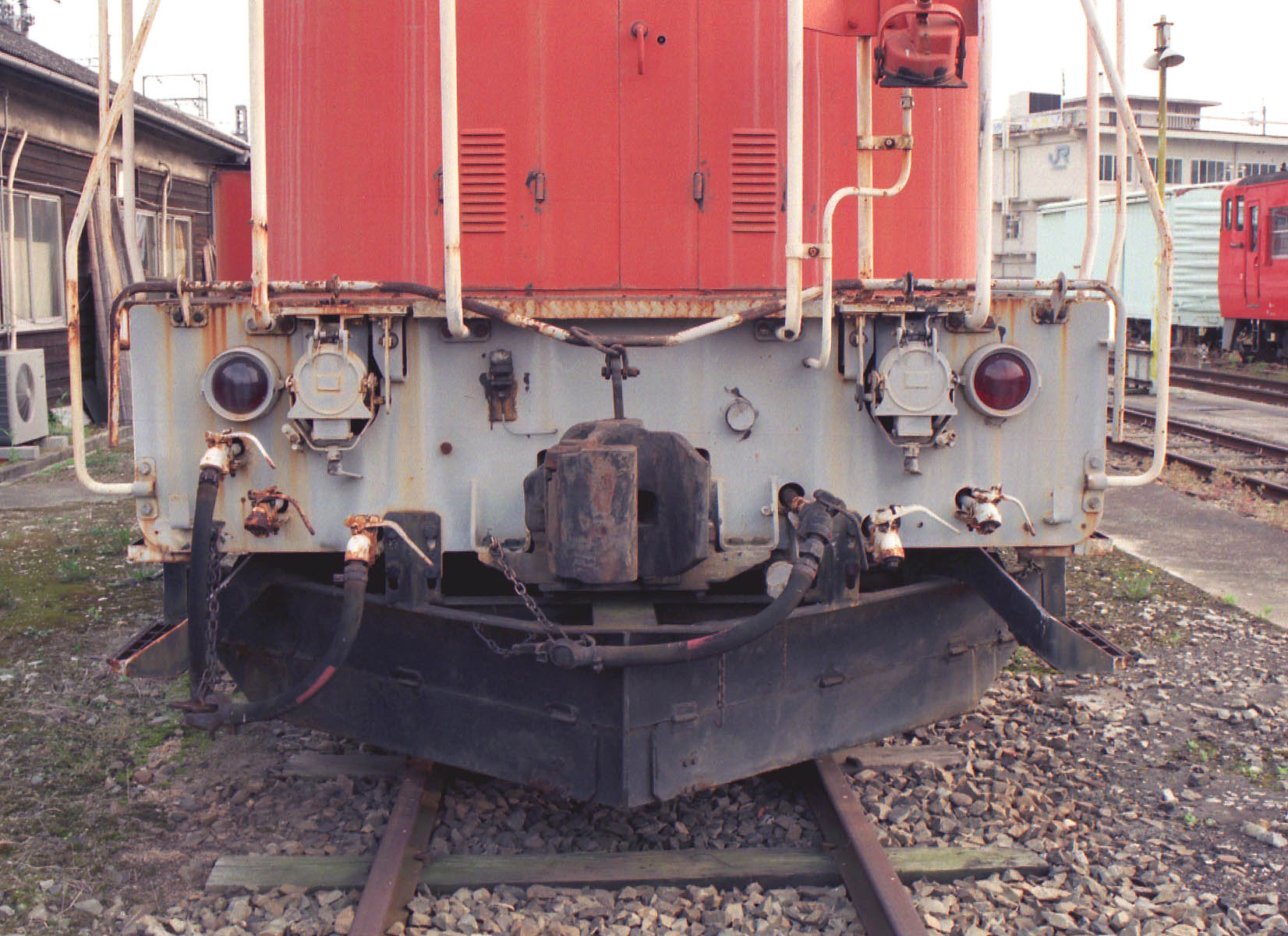 JNR Type DE50 Diesel Locomotive No.1 at Okayama